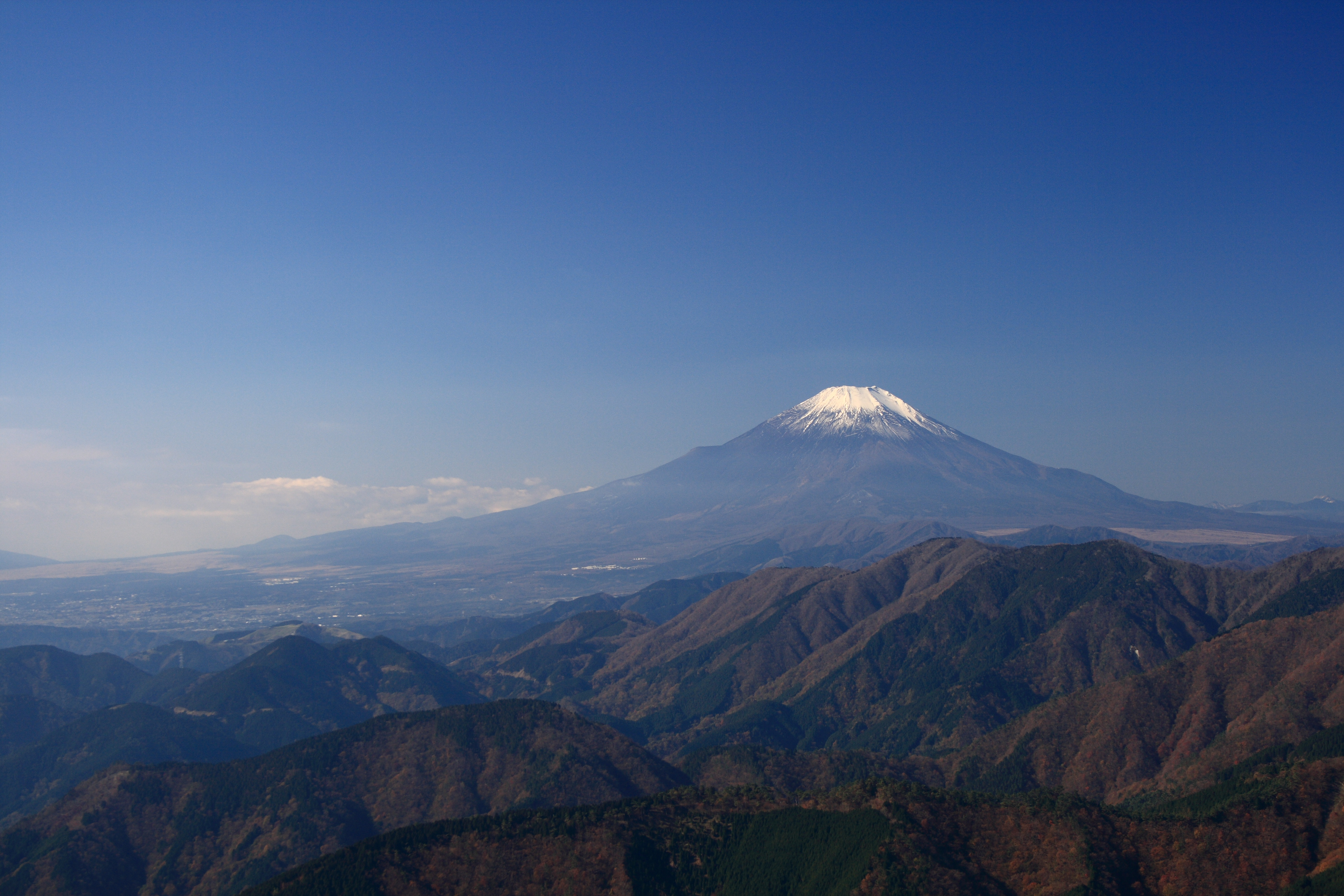 View of Mt. Fuji from Tanzawa, Kanagawa, Japan.